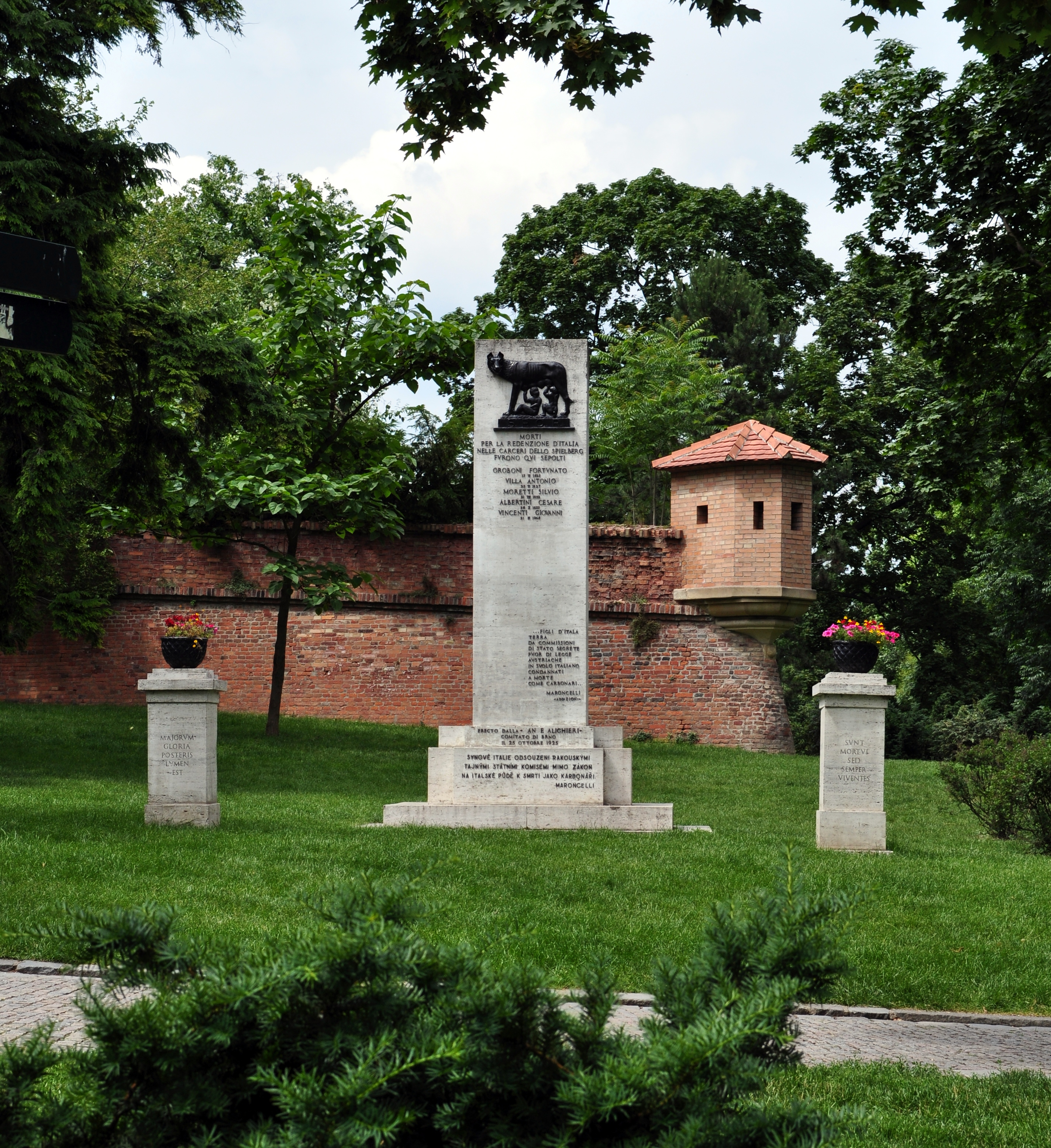 Memorial to Italian Carbonari imprisoned at Špilberk Castle in Brno, Czech Republic, who died and were buried here